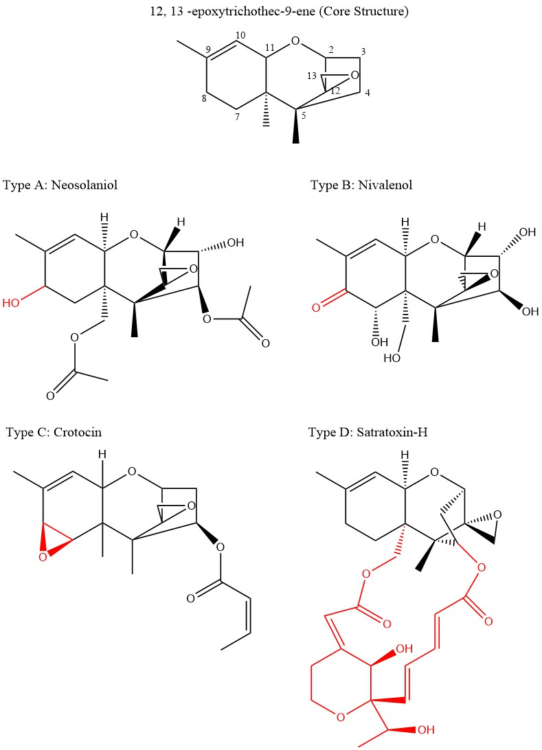 The core structure and identifying functional groups (red) from common examples of the major types of trichothecene mycotoxins.